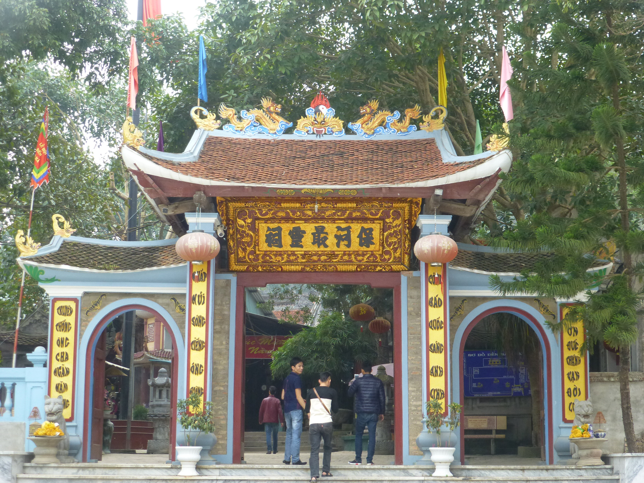 A gateway arch in Temple Bảo Hà, located on the shore of the Red River in Bảo Hà Rural Commune (physically, a small town), Bảo Yên District, Lao Cai Province.